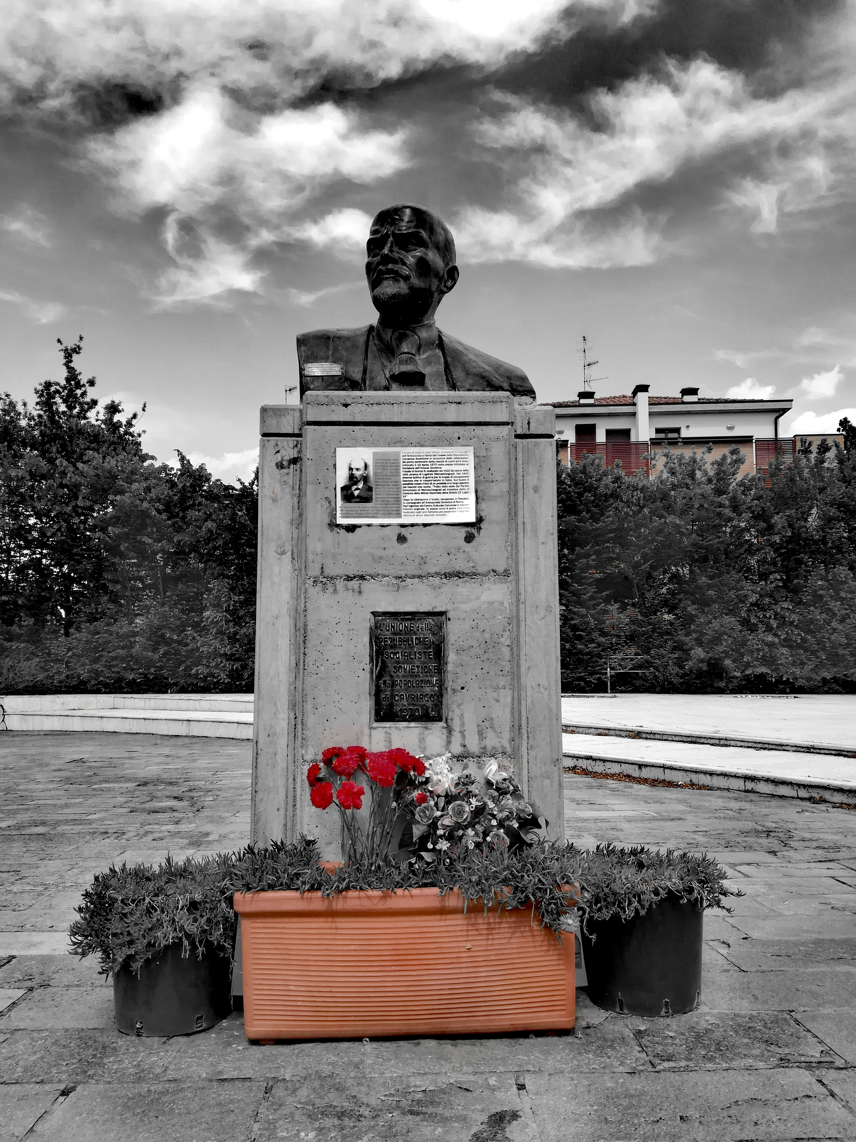 Lenin's Bust- Cavriago (Province of Reggio Emilia)